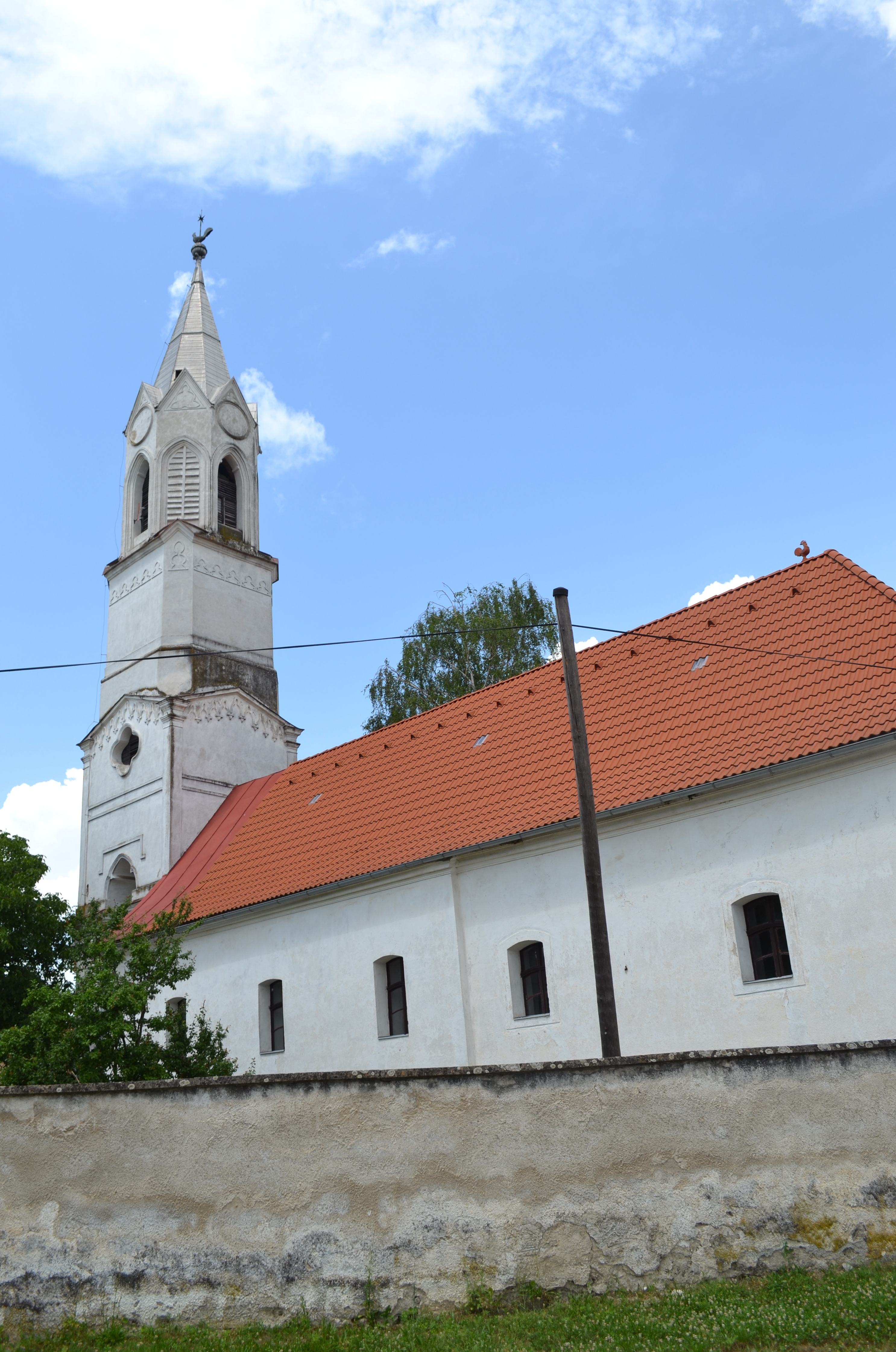 Reformed Church of Toleration in 1790, built on older foundations, the tower 1858Slovenčina: Kostol reformovaný tolerančný z r. 1790, postavený na staršom základe, veža z r. 1858.